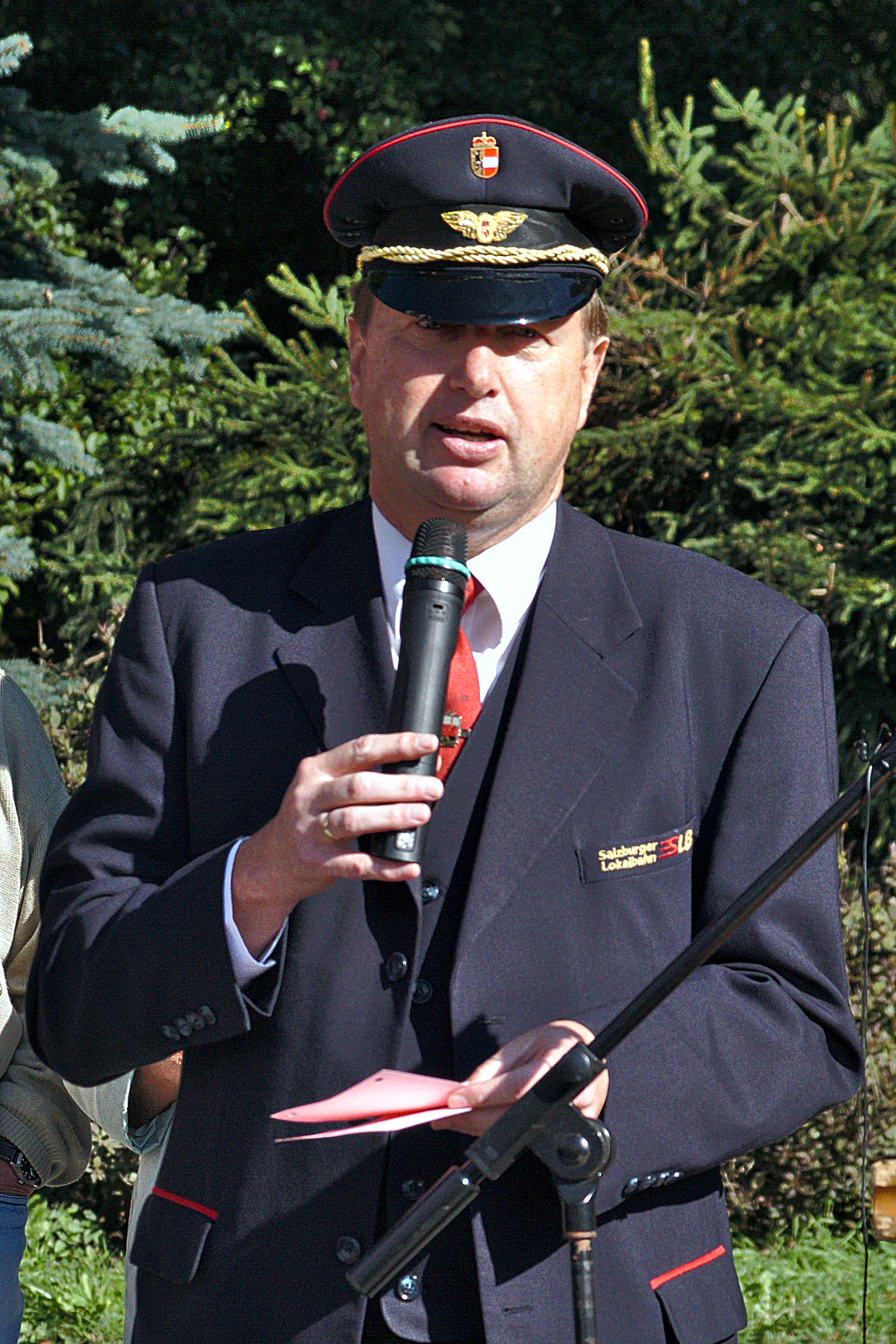 Austrian author and Salzburg AG traffic business manager Gunter Mackinger at the reopening ceremony of the Pinzgauer Lokalbahn.